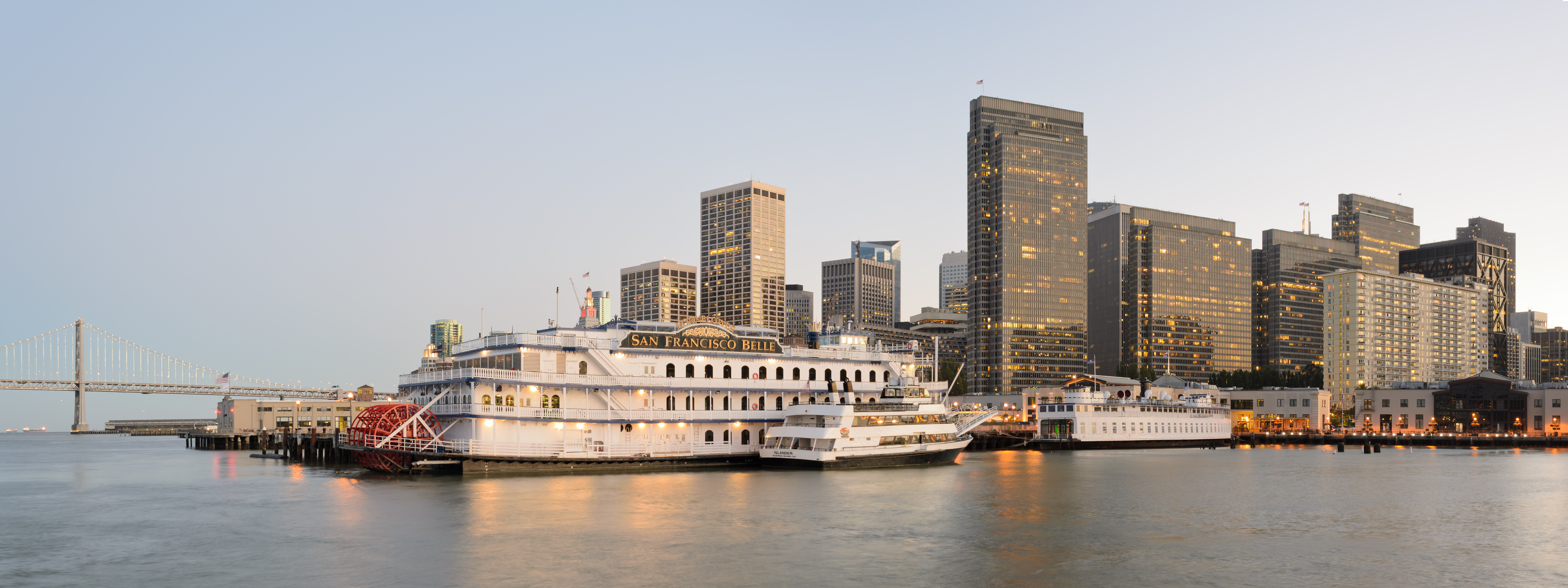 Two-segment panorama of San Francisco from Pier 7 at dusk. In the foreground one can see ships docked at Pier 3, with Financial District skyscrapers in the background. At the left is the Bay Bridge.